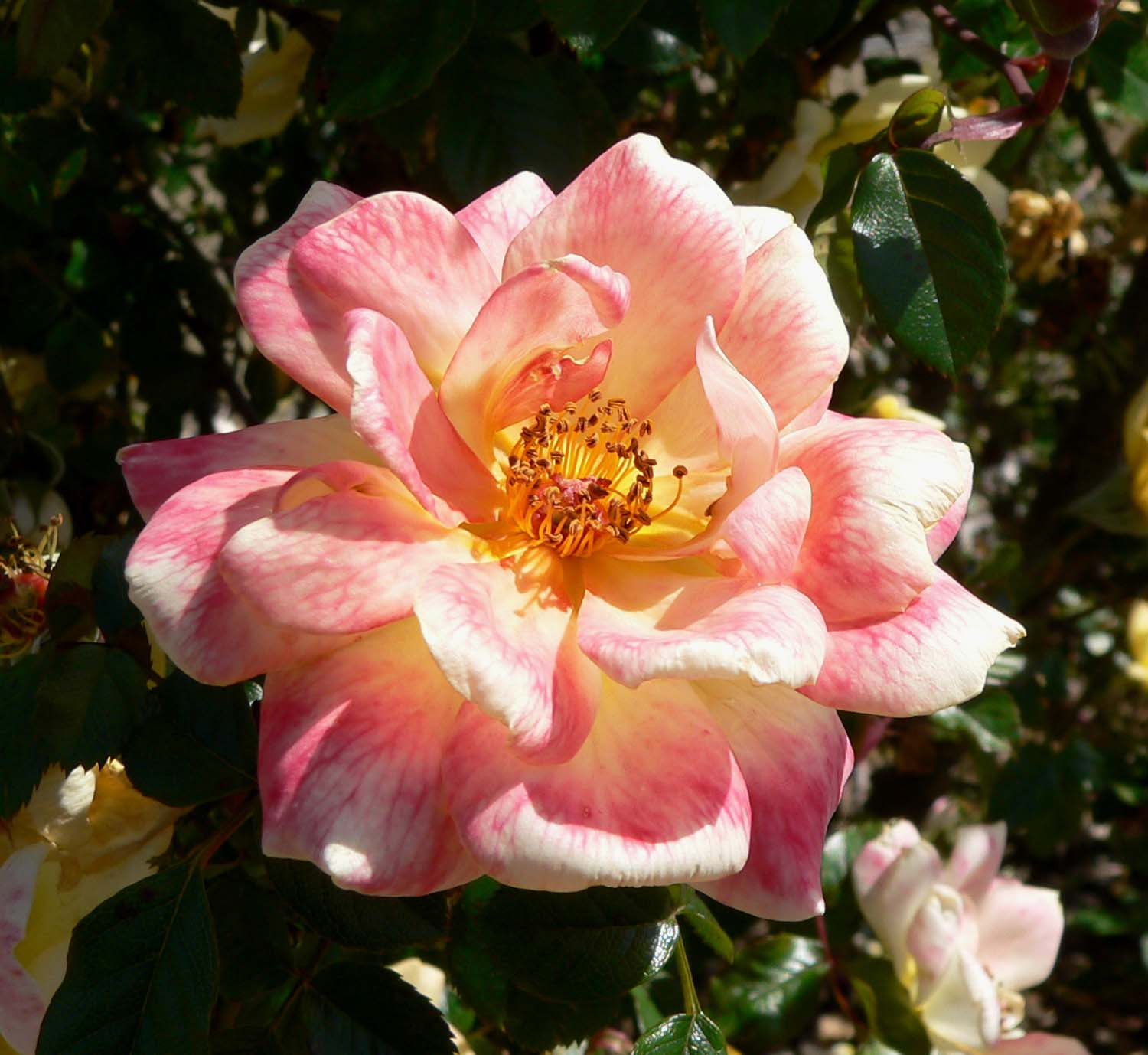 Photo of Rosa 'Laura Ford' at the San Jose Heritage Rose Garden